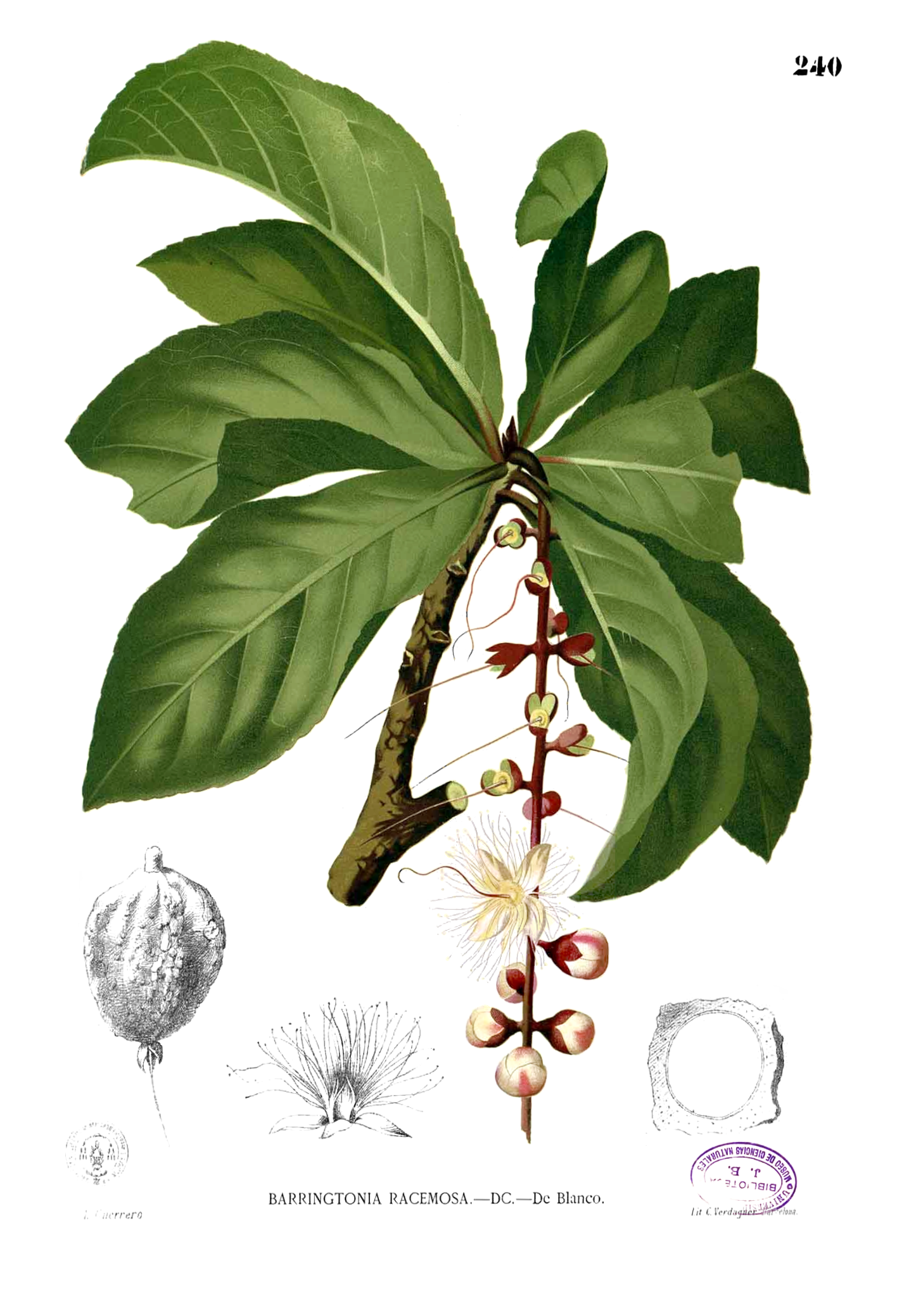 Barringtonia racemosa Plate from book